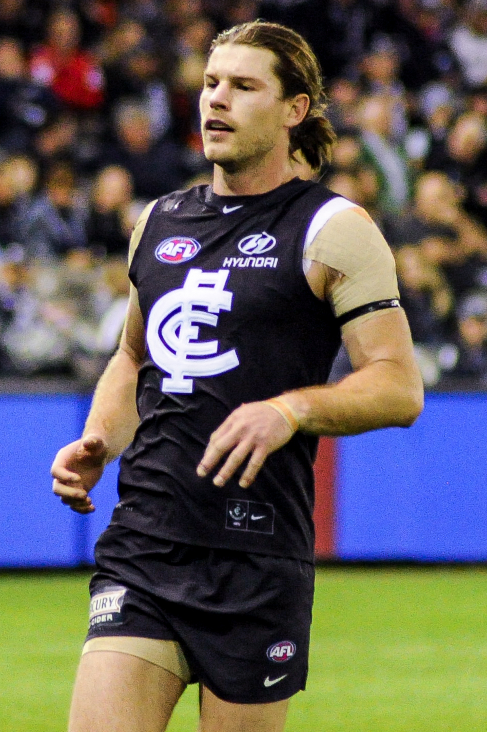 Bryce Gibbs during the AFL round twelve match between Carlton and Greater Western Sydney on 11 June 2017 at Etihad Stadium in Melbourne, Victoria.